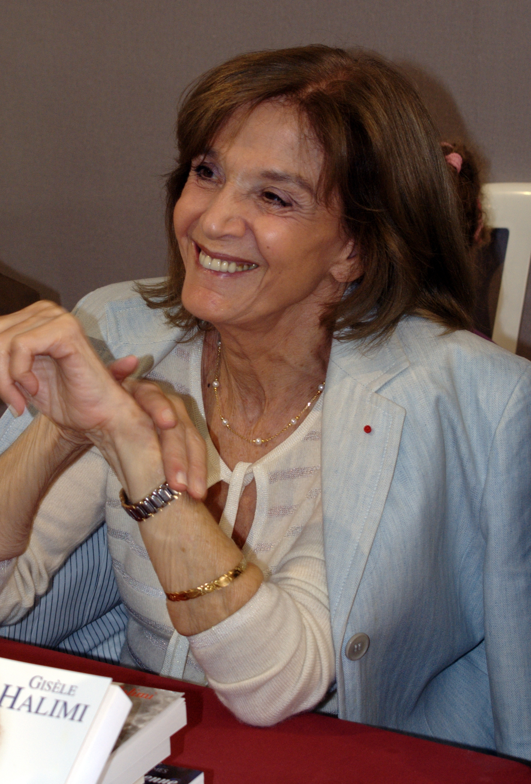 Gisèle Halimi, a French-Tunisian lawyer, feminist activist, and essayist, at the Fête de l'Humanité 2008